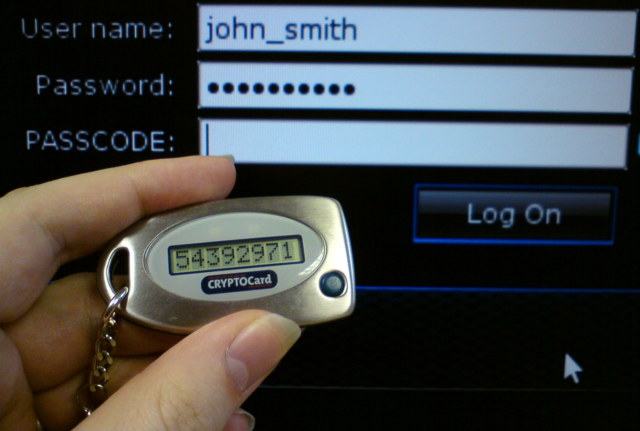 CryptoCard security token, displaying a One Time Password, being held in front of a Citrix XenApp login screen, partially filled in with example details.